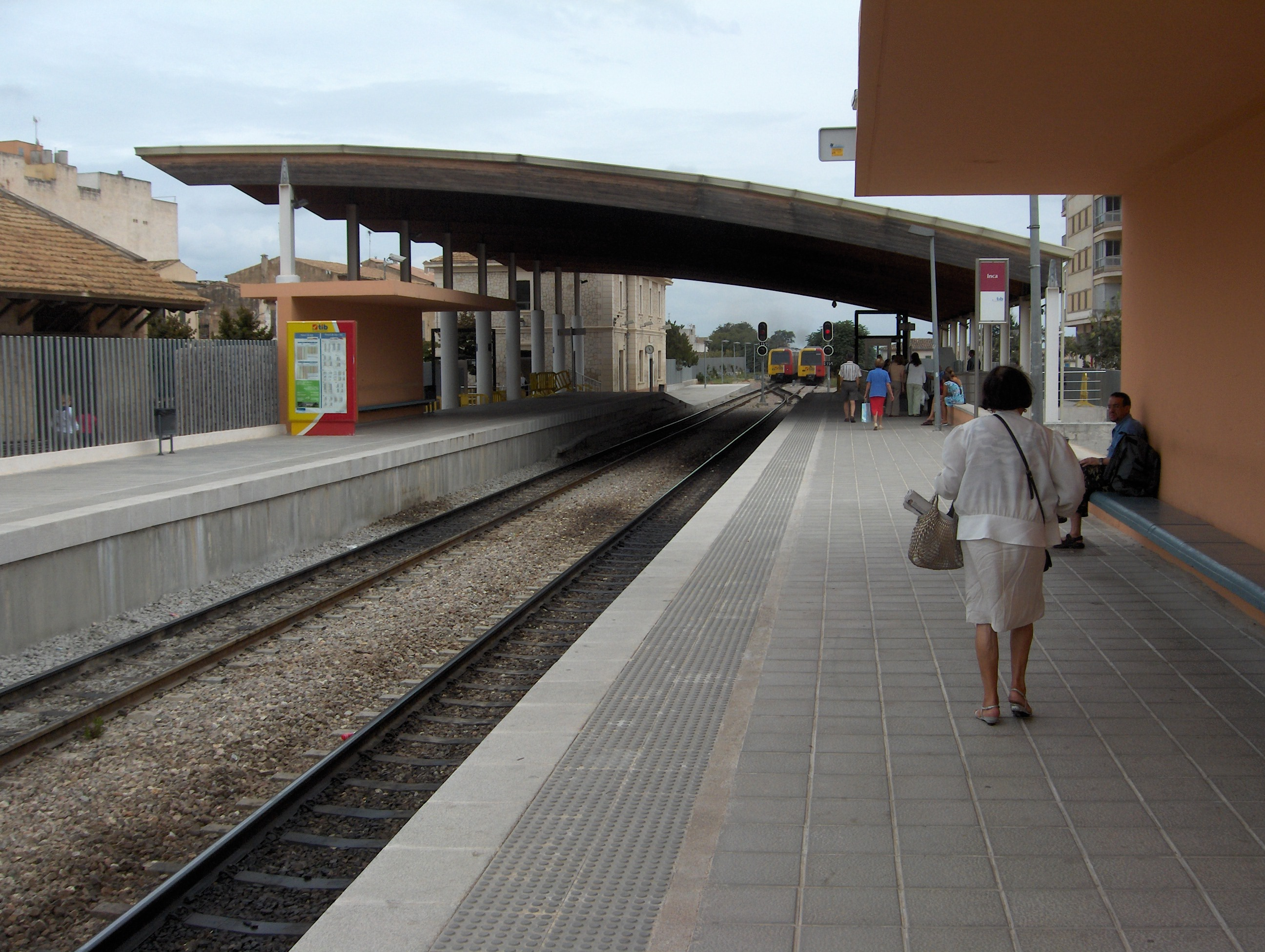 Plattforms of the SFM in Inca on Mallorca